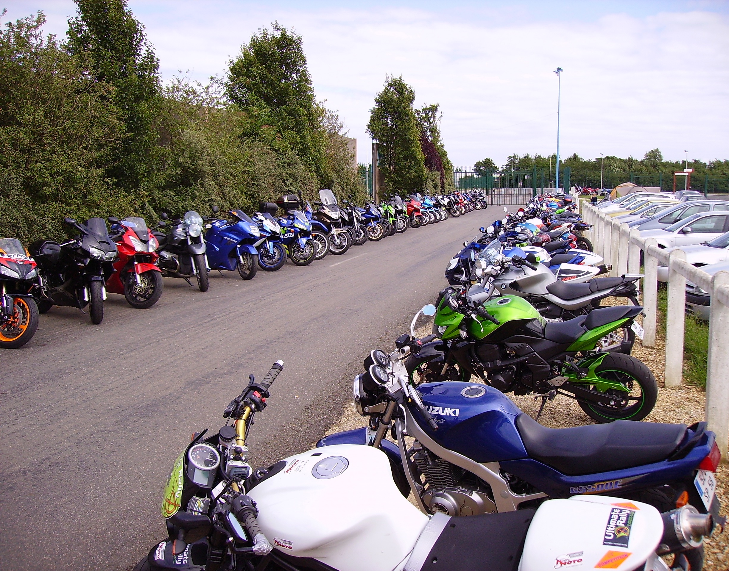 Group of aligned motorcycles in the Circuit de Nevers Magny-Cours, France.